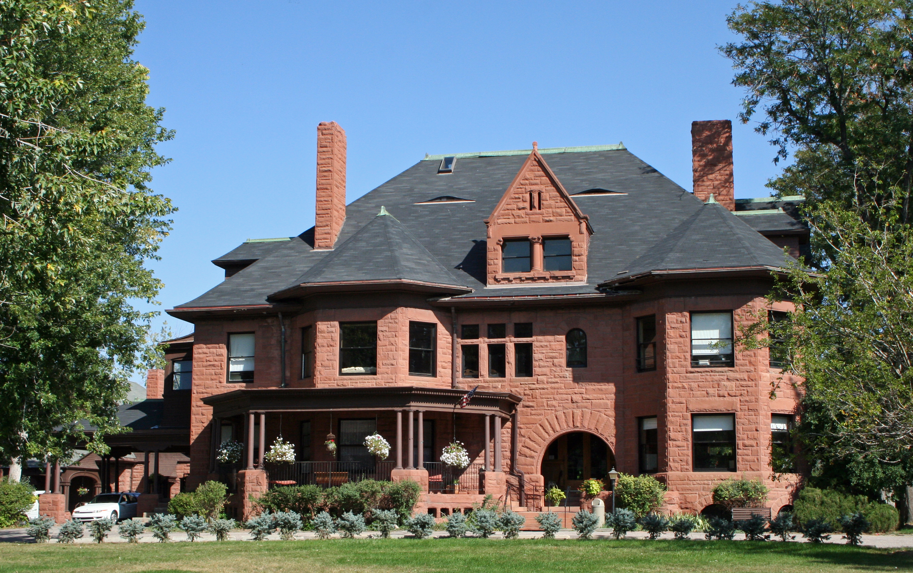 Fitzroy Place, located at 2160 South Cook Street in Denver, Colorado. Formerly a private residence, the building is now the headquaters of Accelerated Schools of Denver. It is listed on the National Register of Historic Places.